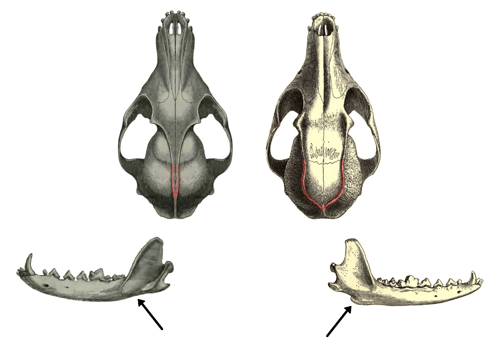 Comparative illustration of Vulpes vulpes and Urocyon cinereoargenteus skulls and mandibles with temporal ridges coloured and subangular lobes pointed out. Illustrations derived from Dogs, jackals, wolves, and foxes : a monograph of the Canidae by St. George Mivart (1890)